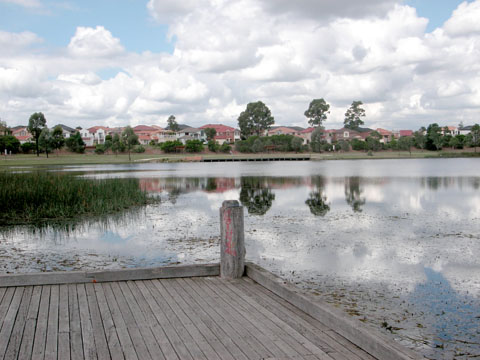 Lake Woodcroft in the suburb of Woodcroft, NSW